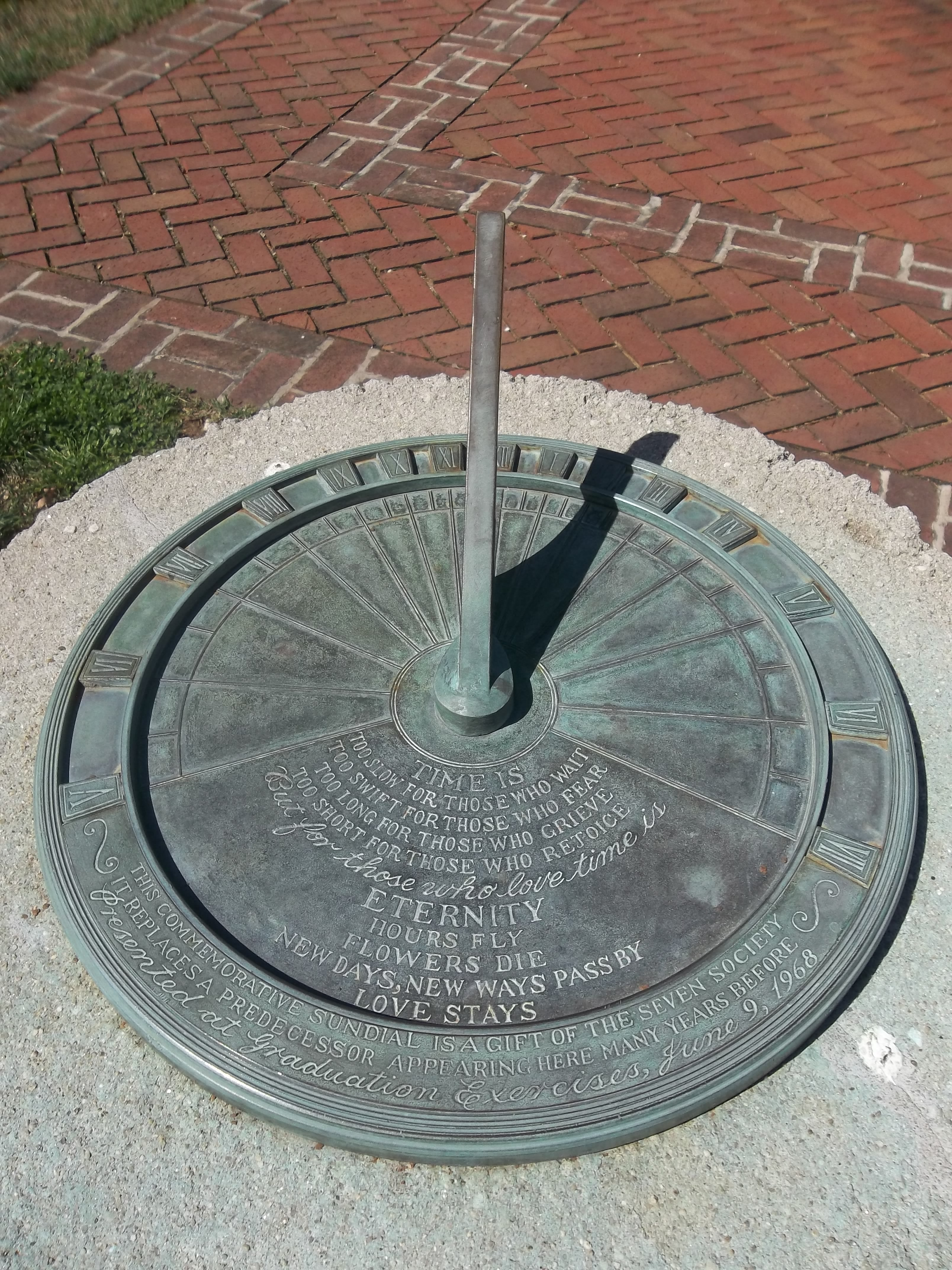 A sundial with the markings of the Seven Society